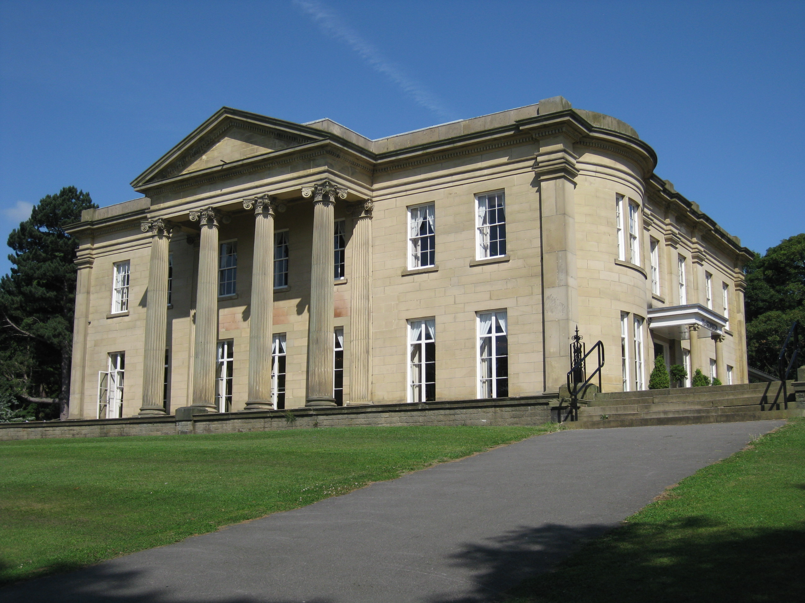 The Mansion, Roundhay Park, Leeds 1815, viewed from the park. three-quarter view